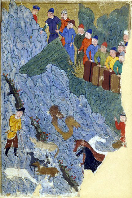 People of Qongirat.